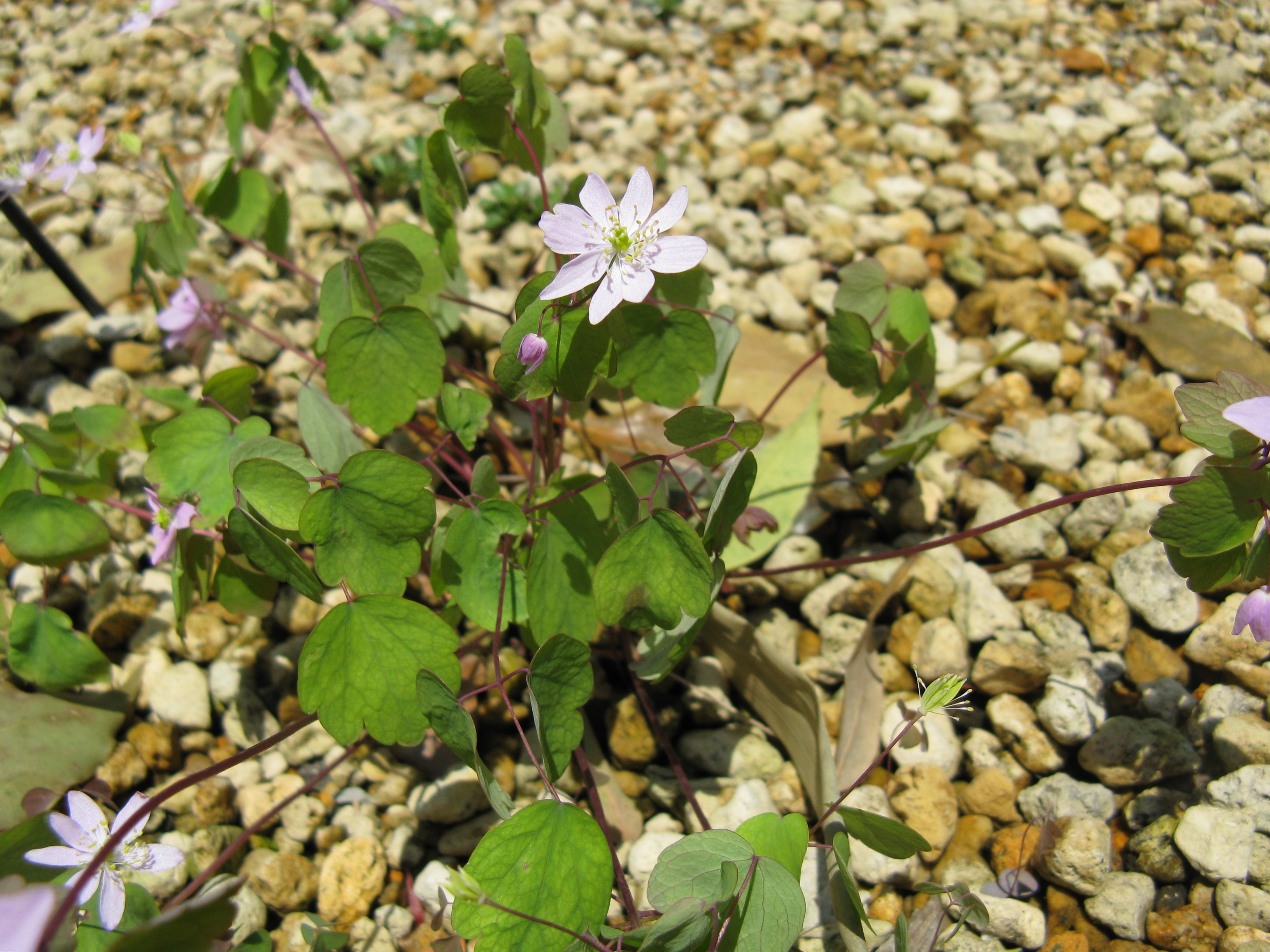 Thalictrum thalictroides Place:Osaka Prefectural Flower Garden,Osaka,Japan